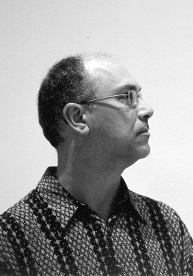 Black and white profile image of composer David Felder